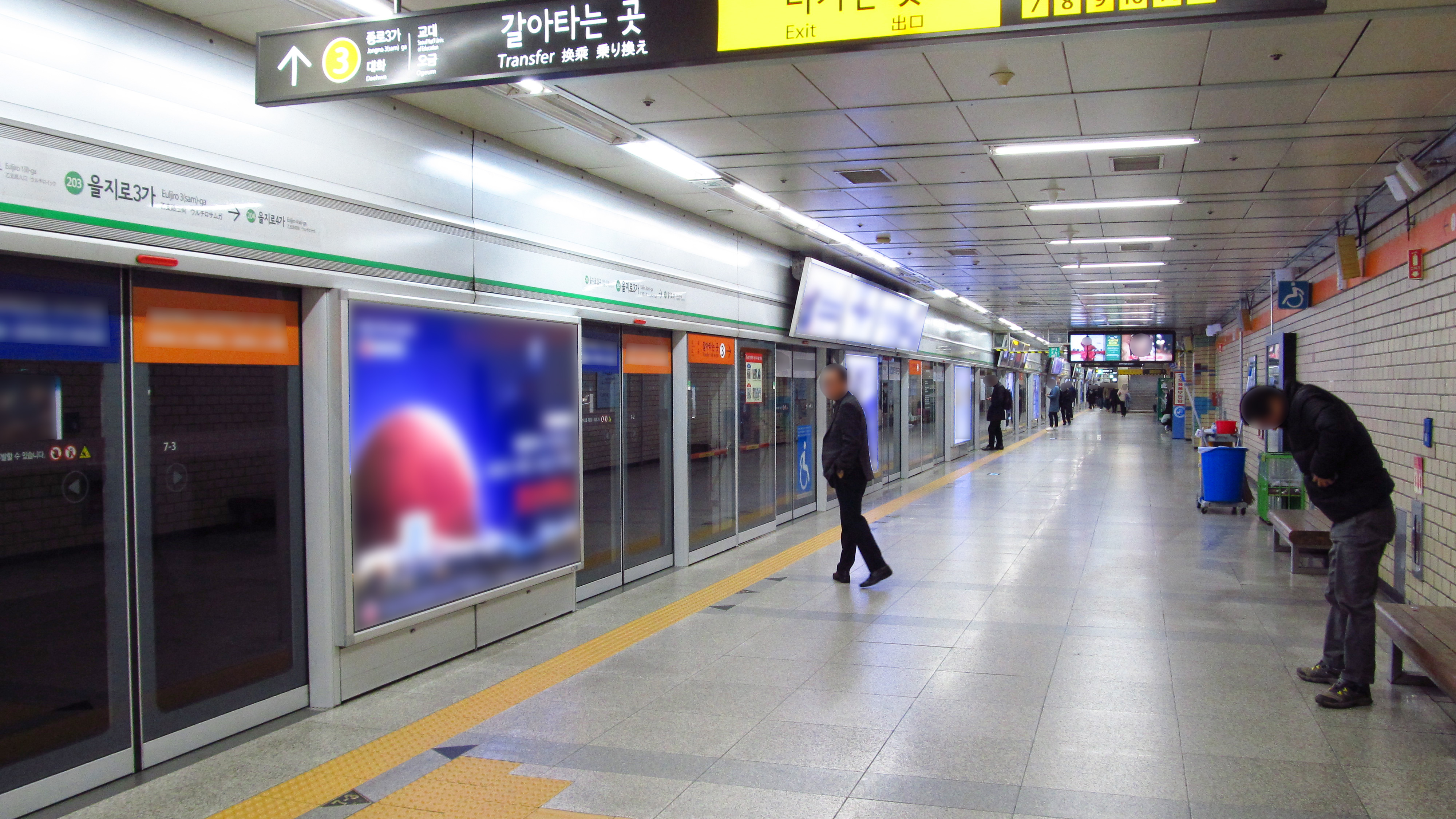 The platform at Euljiro 3-ga Station on Seoul Subway Line 2 in Jung-gu, Seoul, Republic of Korea(South Korea)